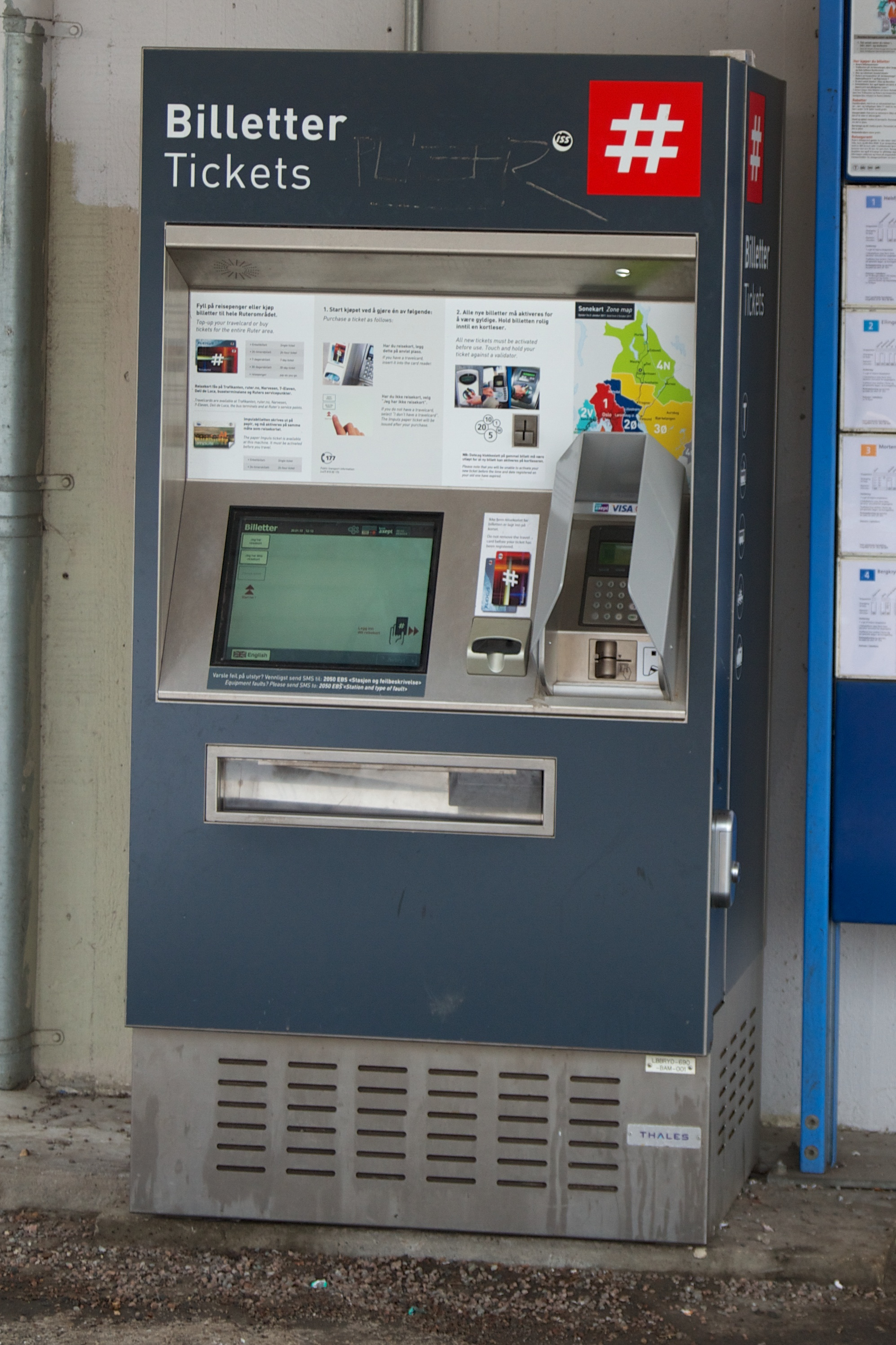 A Ruter Ticket machine at Brynseng station.